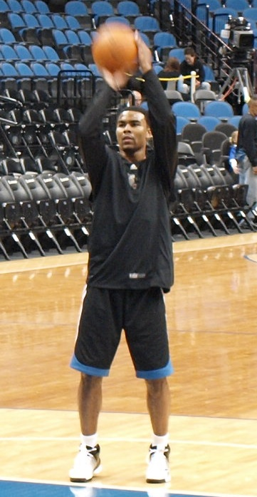 Ramon Sessions practicing shooting before a game